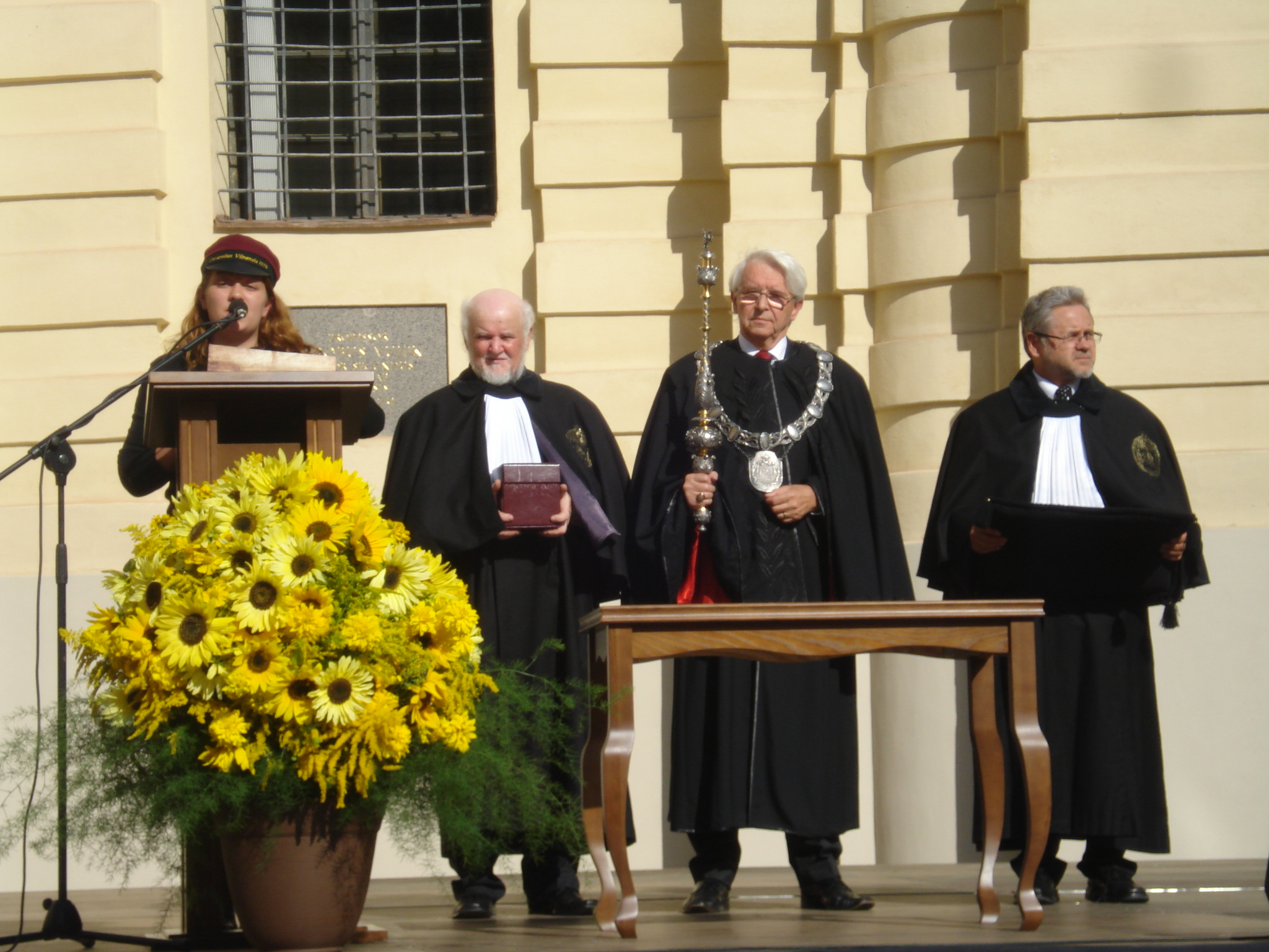 The student oath. Benediktas Juodka, Rector of Vilnius University, holding rector's sceptre. 2009.09.01